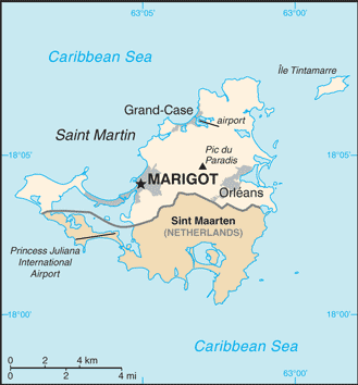 Map of Saint Martin from the 2010-10-22 revision of the World Factbook